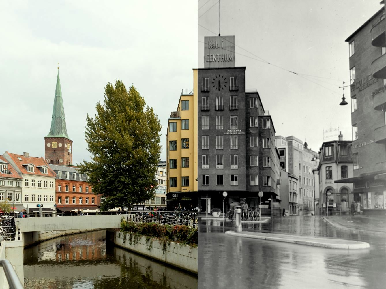 Immervad1945 and 2016